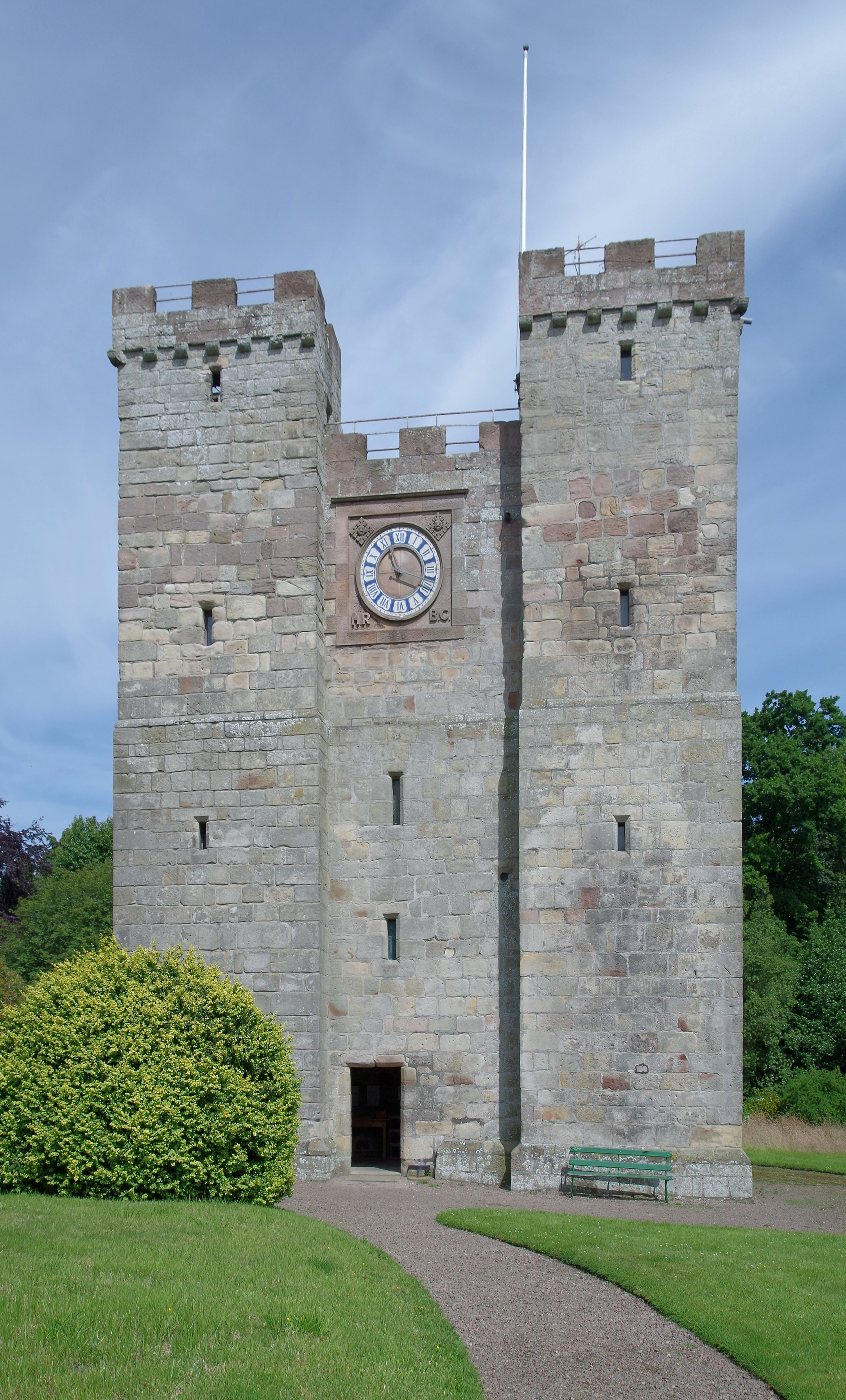 Preston Tower, an old fort to keep out Scottish raiders and rustlers, in Chathill, Northumberland.